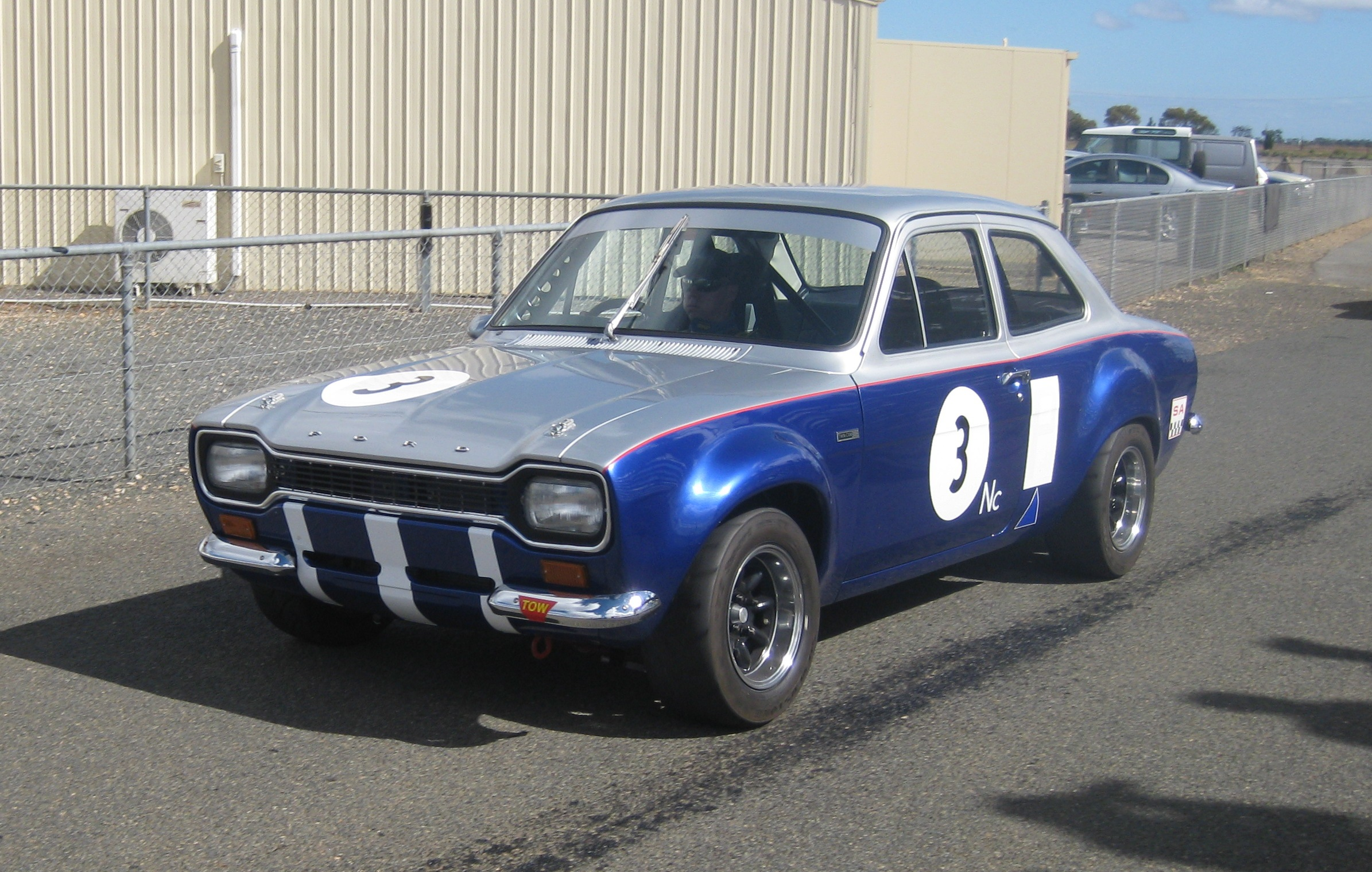 The Ford Escort Twin Cam of Josh Axford at Mallala Motor Sport Park on 23 April 2011 for the Group N Touring Car races.